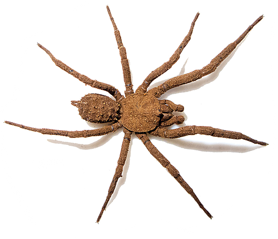 Male of the newly discovered species Paratropis tuxtlensis.